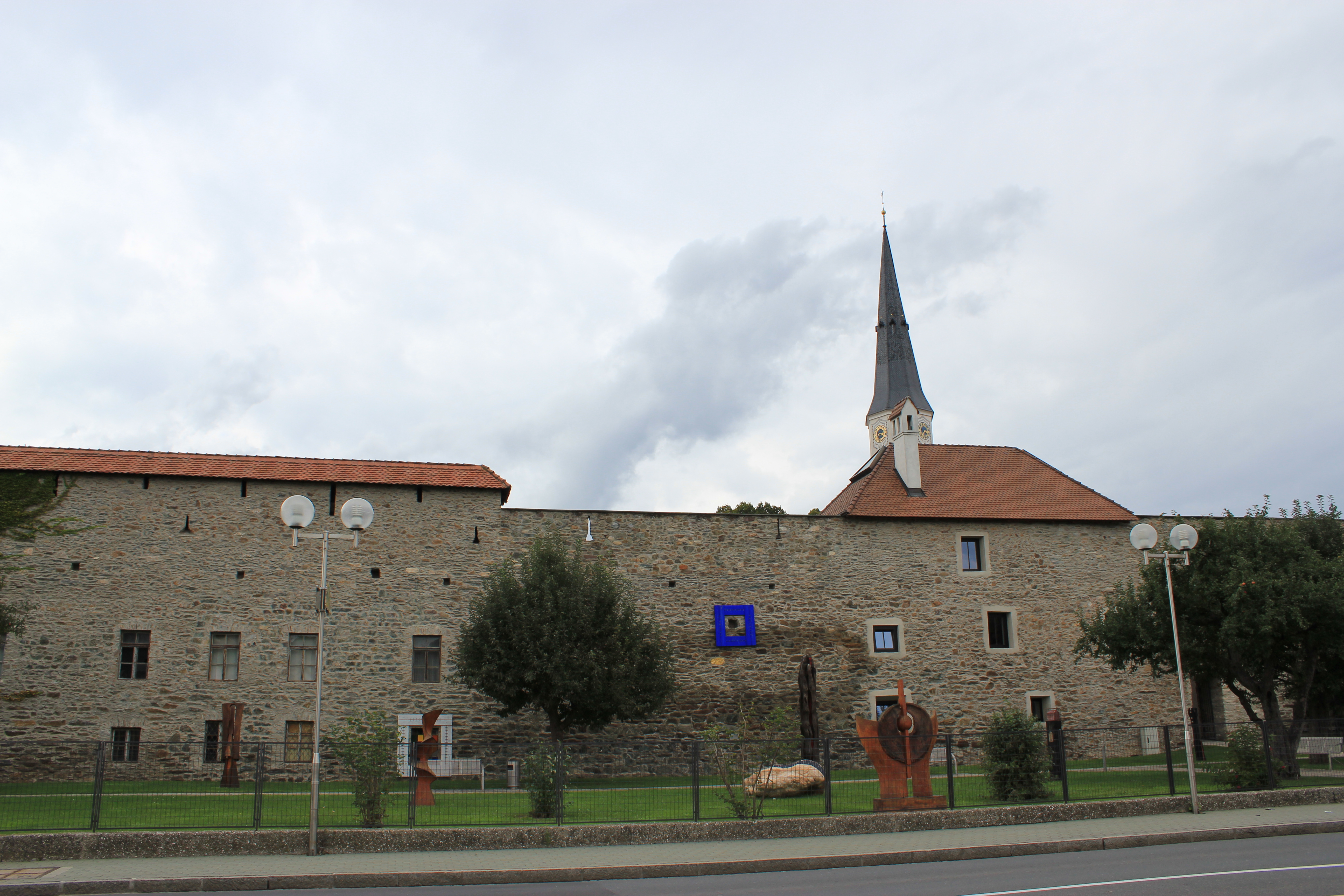 Fortification in Sankt Veit an der Glan